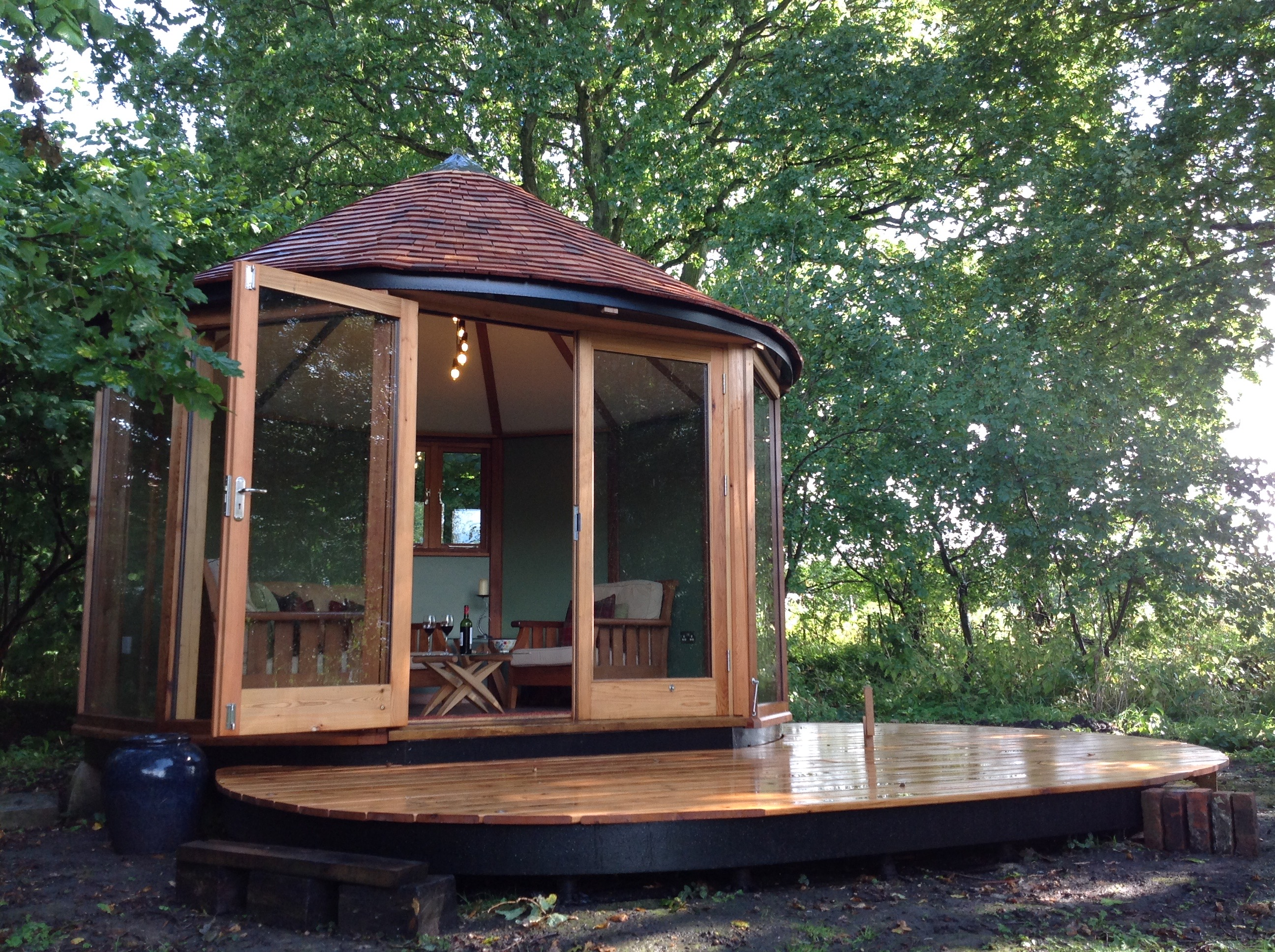 Imagiine Round Garden Building